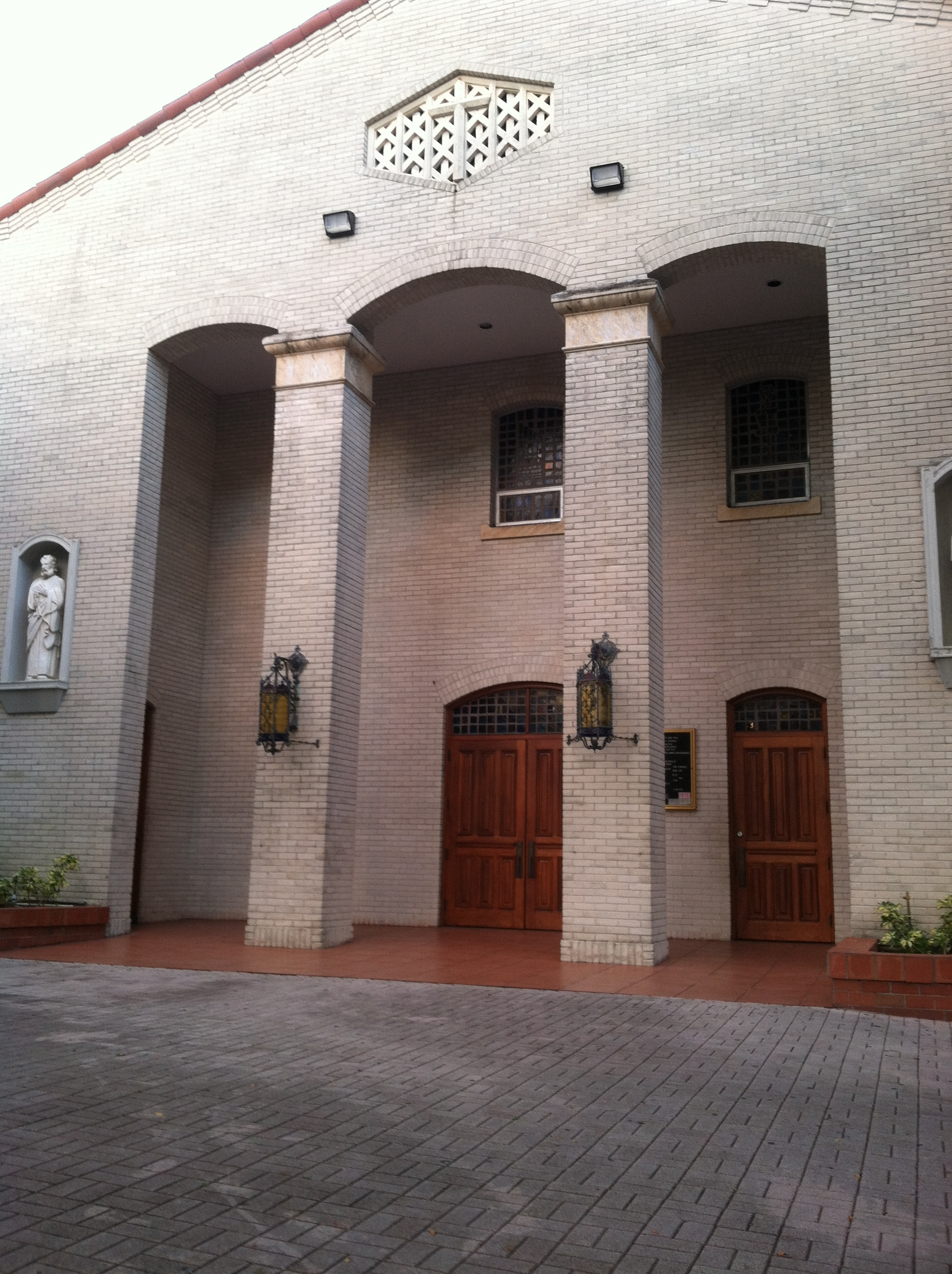 Photo of entrance to Sts Peter and Paul Church